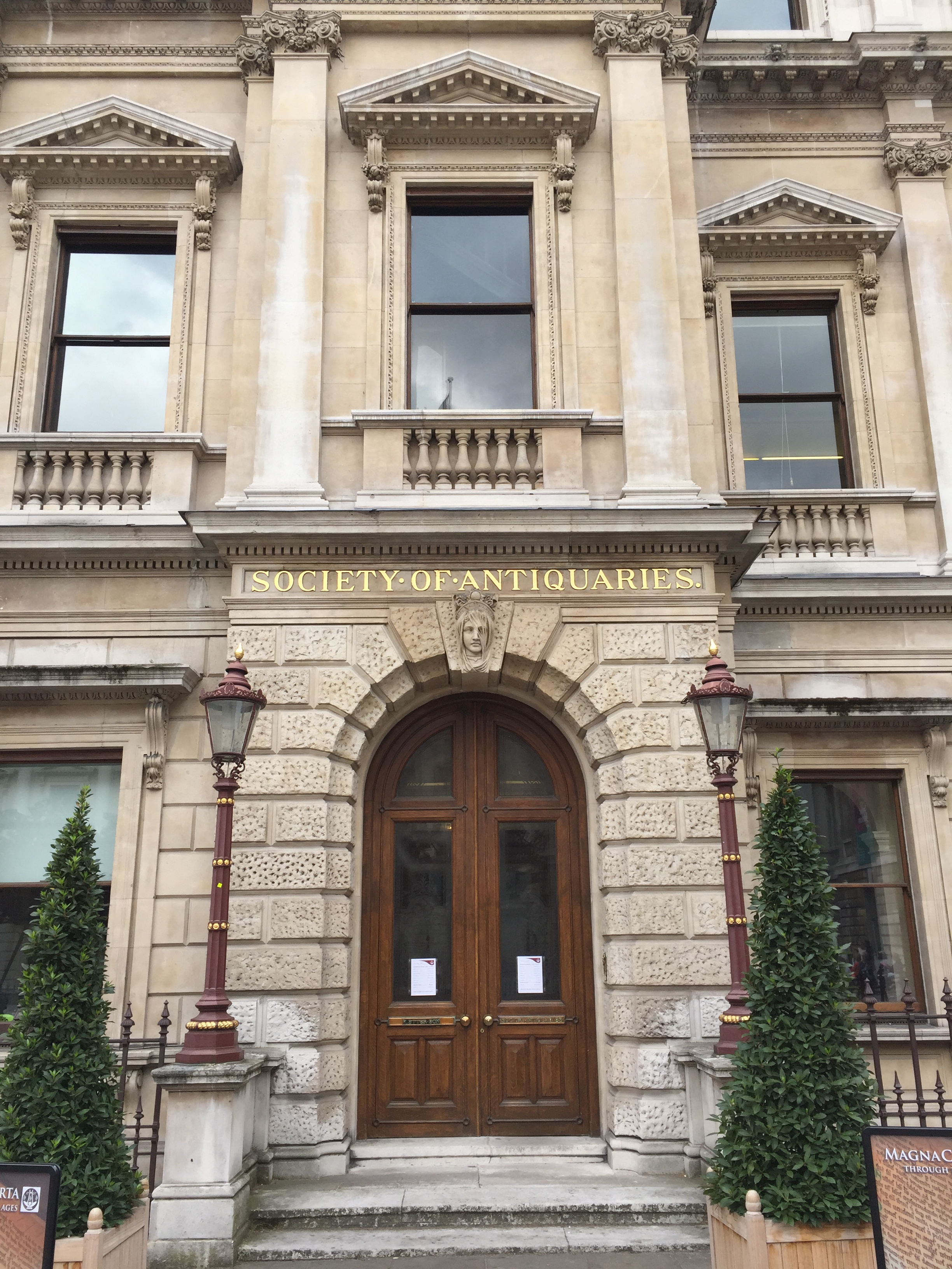 The Society of Antiquaries of London in the west wing of Burlington House, London, England, UK.